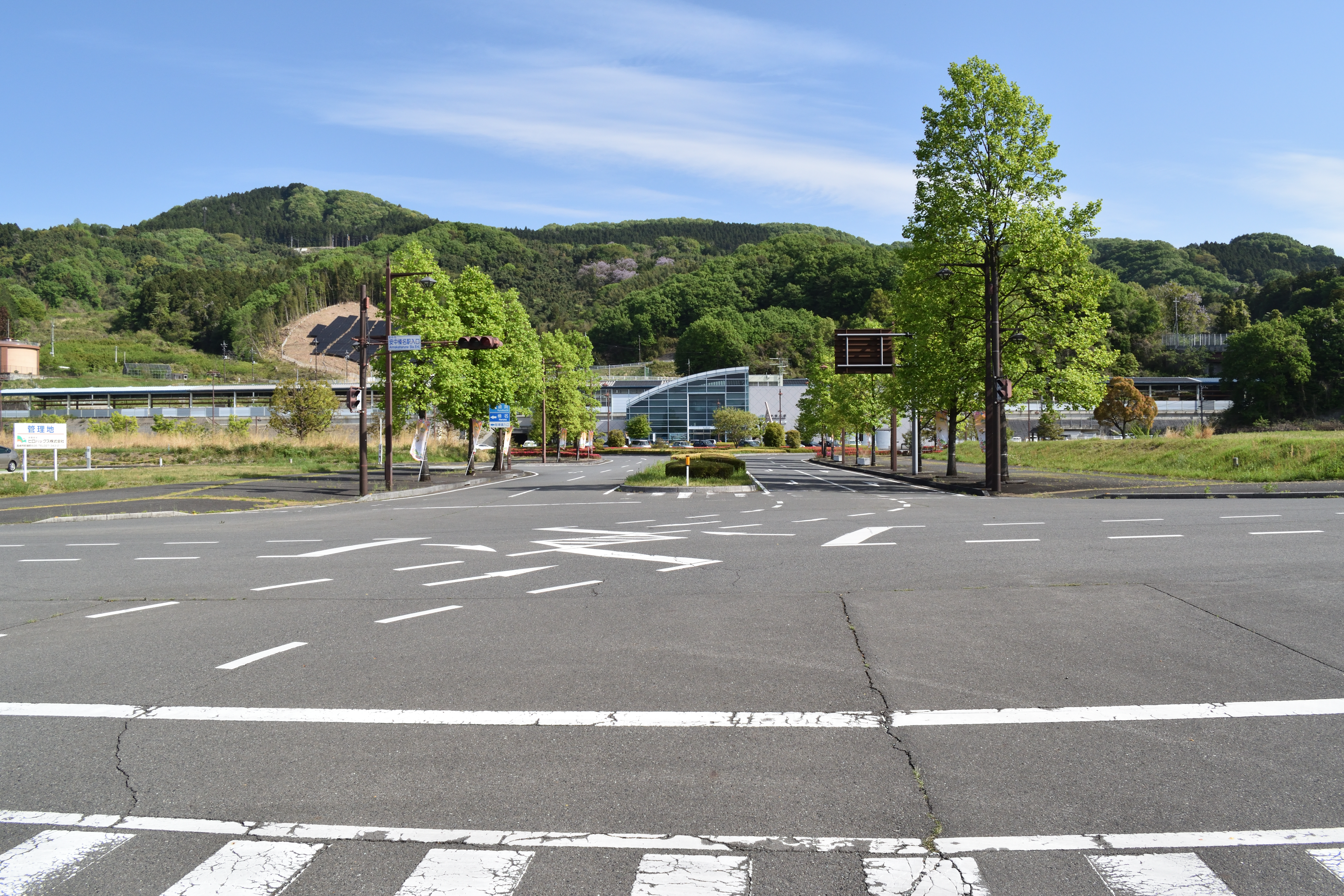 In front of the Annaka-Haruna Station of Hokuriku Shinkansen. (File name is wrong. It's not March but May.)